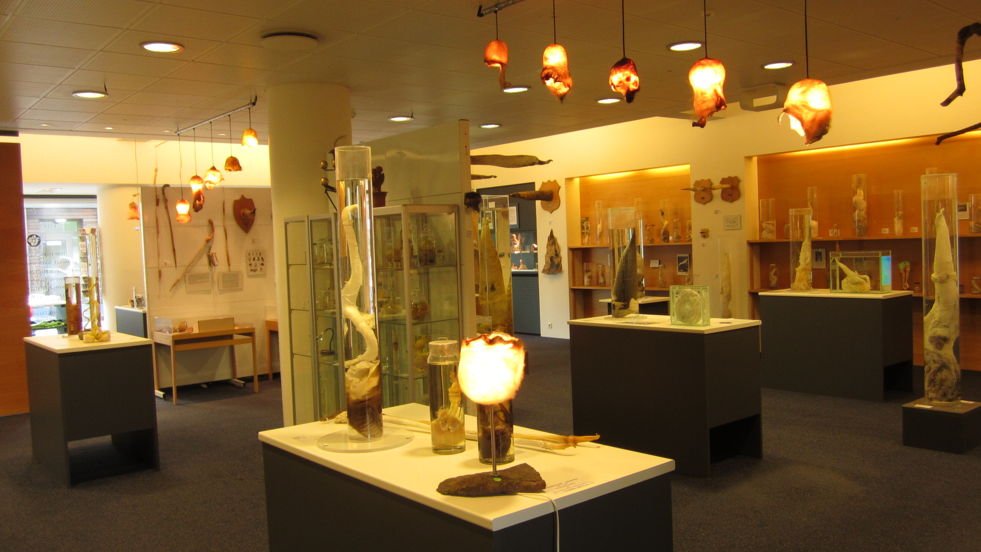 Inside the Icelandic Phallological Museum (Hið Íslenzka Reðasafn) located on Laugavegur, Reykjavík, Iceland.